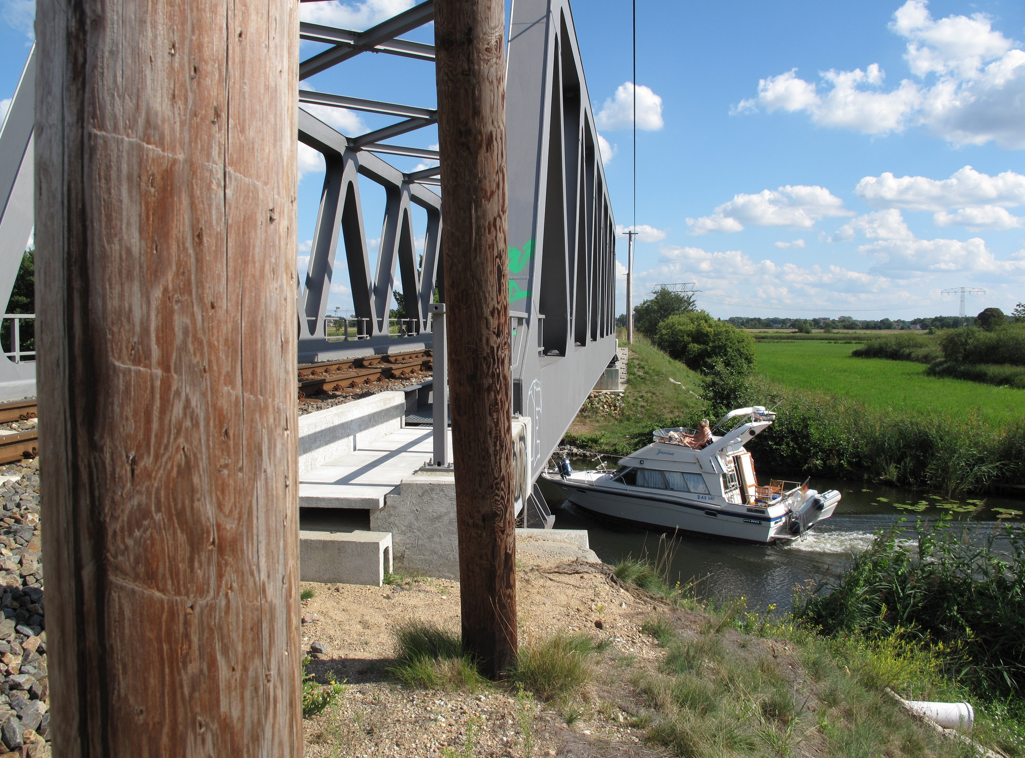 Iron truss frame bridge of the Railway line Königs Wusterhausen–Grunow over the Storkower Kanal (water canal) in the Naturschutzgebiet Luchwiesen. The protected area covers 109,57 hectare and is situated in the town Storkow, District Oder-Spree, Brandenburg, Germany. It is placed in the Dahme-Heideseen Nature Park.